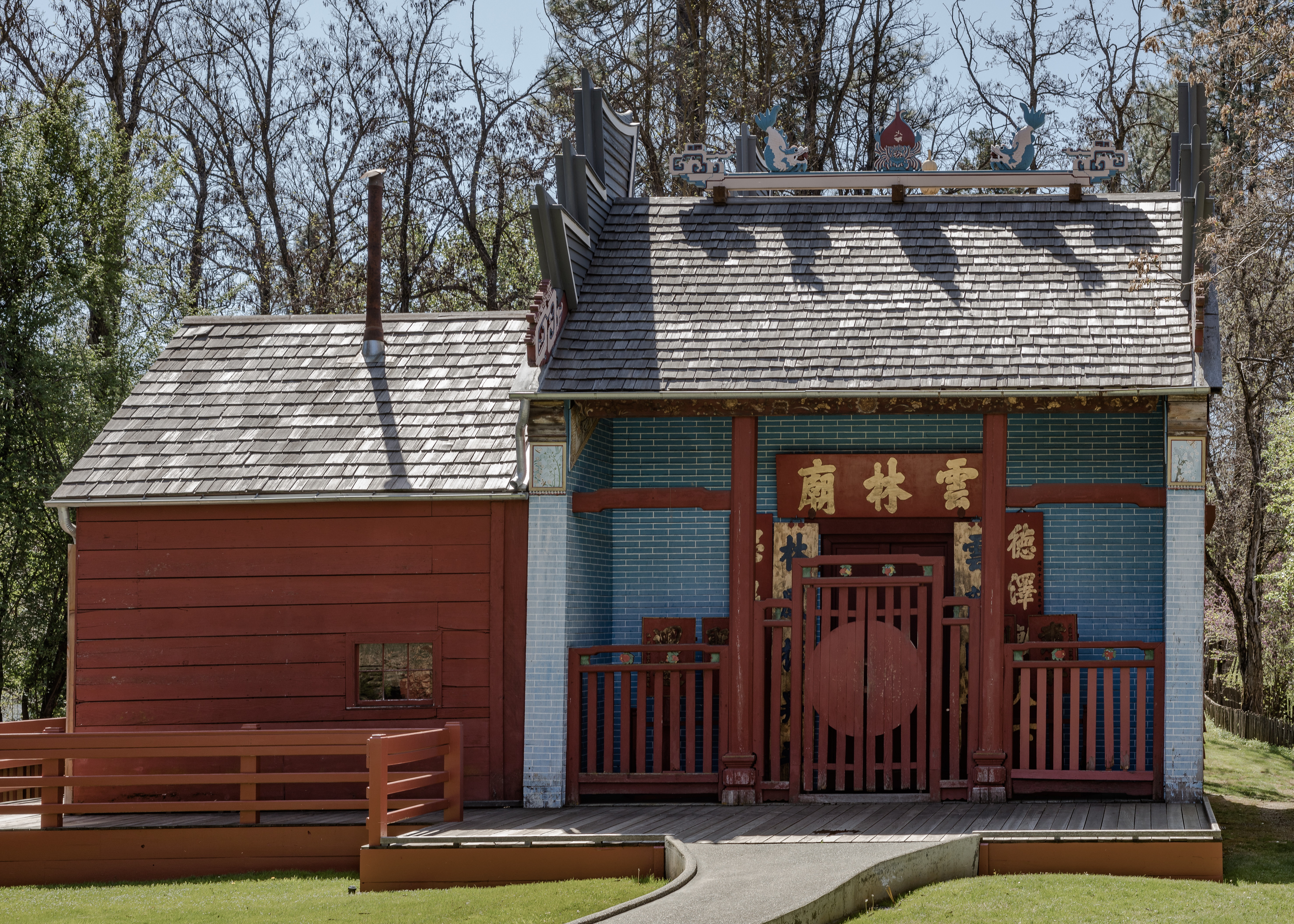 Joss House, a Taoist temple at Weaverville Joss House State Historic Park. The oldest wooden Chinese temple still in use in California. Built in 1874 to replace an earlier structure which had been destroyed by fires.